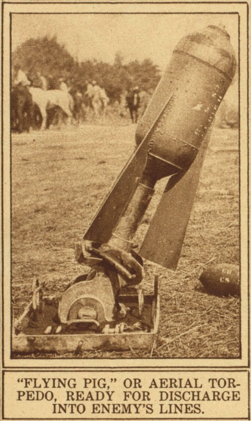 French Mortier de 58 mm type 1 bis, a trench mortar, loaded with "torpedo" , World War I.